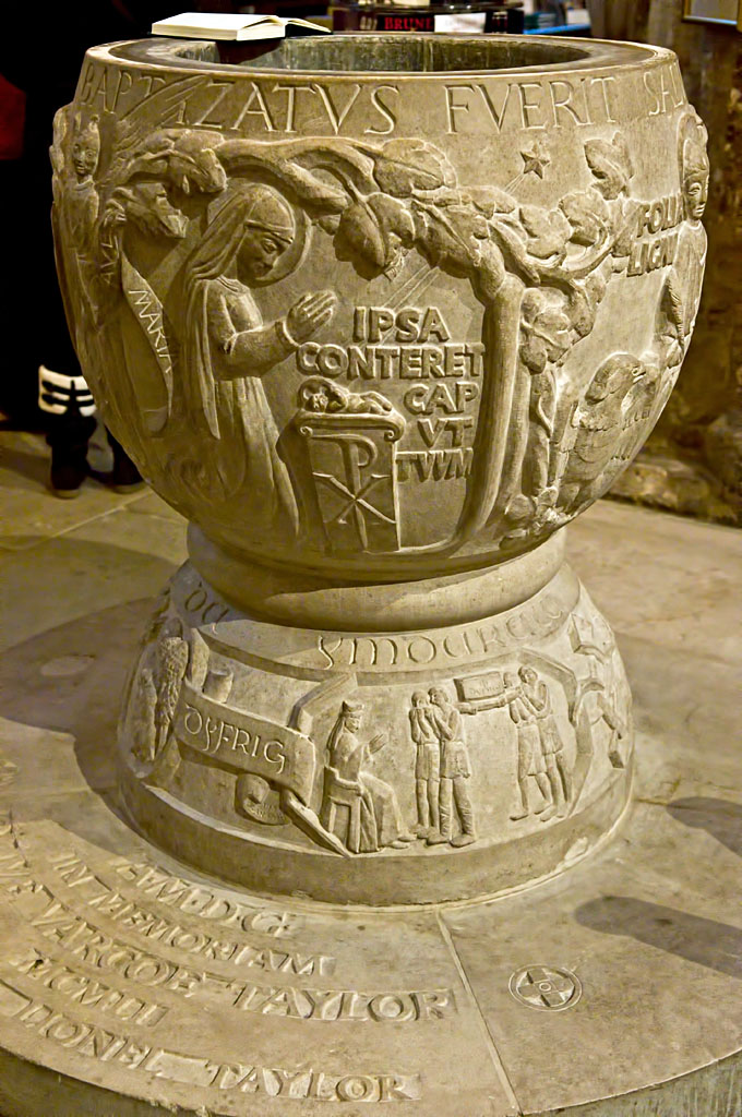 Baptismal font in Llandaff Cathedral, Cardiff, sculpted by Alan Durst